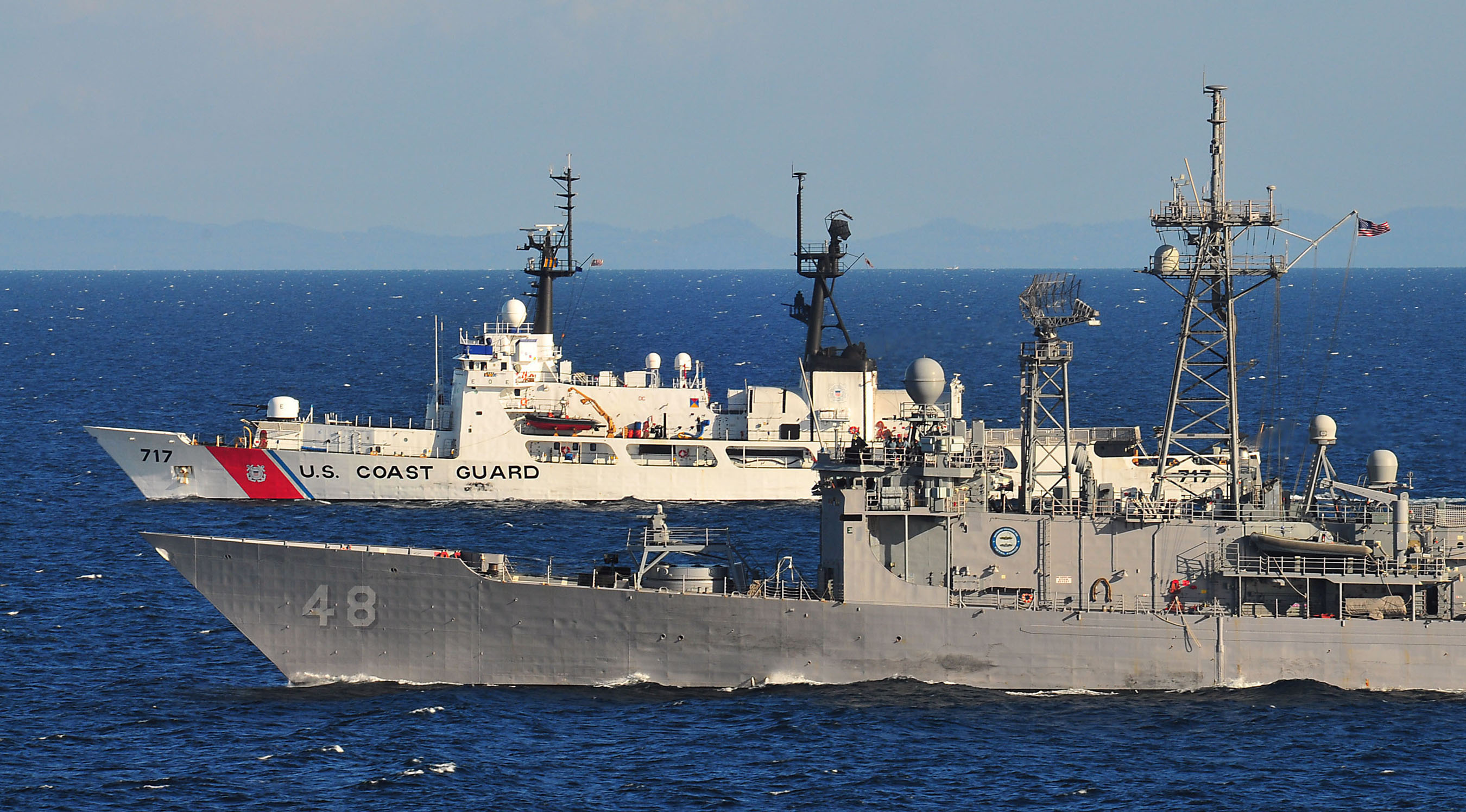 JAVA SEA (May 28, 2010) The guided-missile frigate USS Vandegrift (FFG 48) and the U.S. Coast Guard cutter Mellon (WHEC 717) transit side by side during a division tactics exercise as part of Naval Engagement Activity (NEA) Indonesia 2010. NEA is in its 16th year and is part of the Cooperation Afloat Readiness and Training (CARAT) series of bilateral exercises held annually in Southeast Asia to strengthen relationships and enhance force readiness. (U.S. Navy photo by Mass Communication Specialist 2nd Class David A. Brandenburg/Released)